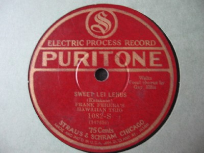 78rpm label scan, Puritone 1082-S. Frank Ferera's Hawaiian Trio